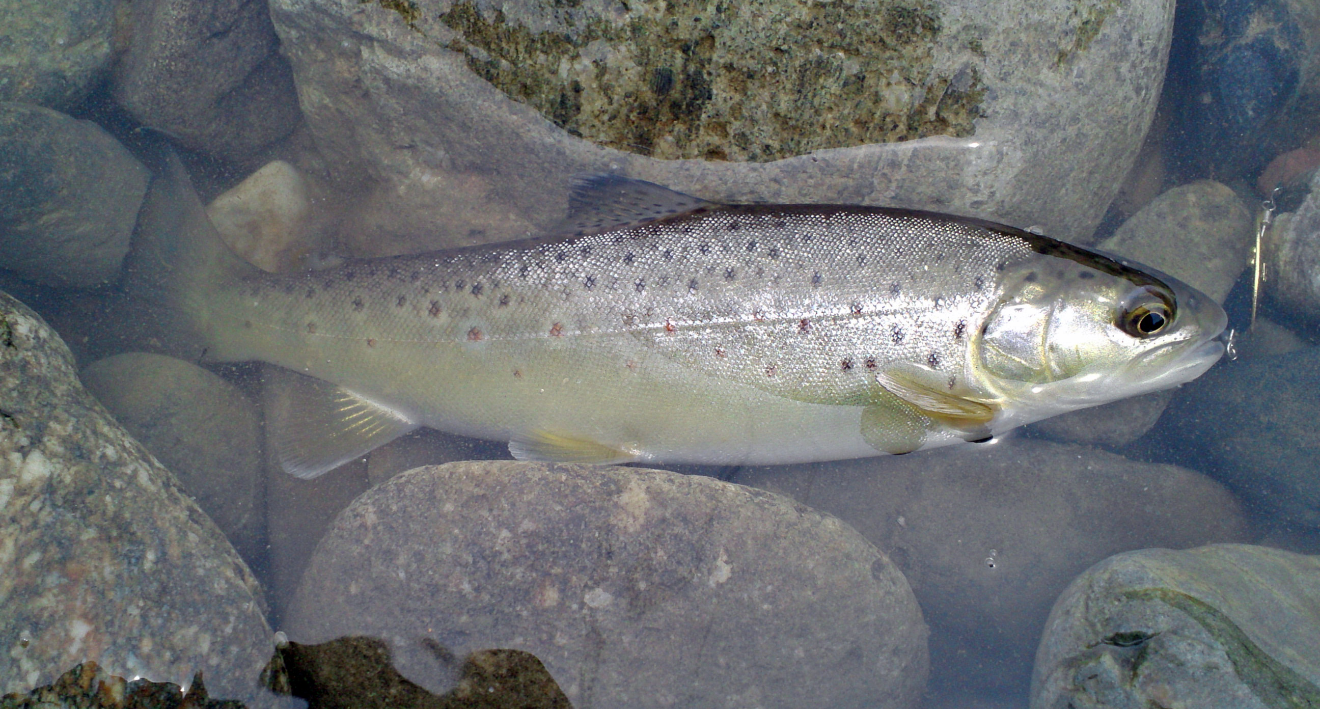 Brown trout (Salmo trutta fario, (Saigawa River Nagano pref. Japan))